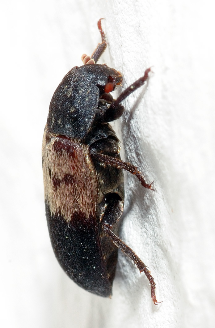 This image shows an about 0.2 inch (5.5 mm) long Bacon Beetle (Dermestes lardarius). Thanks to Doc Taxon for identifying this animal.